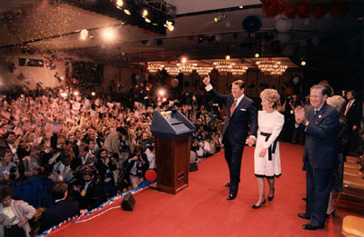 President Reagan, Mrs. Reagan and the President’s brother, Neil Reagan, hail the President’s re-election in the Los Angeles Ballroom